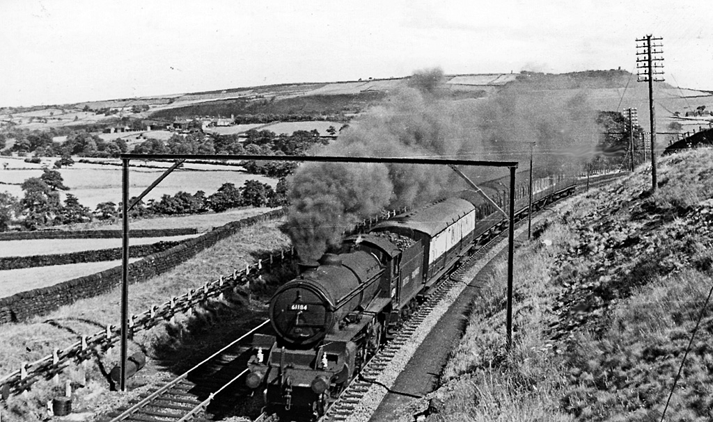 Sheffield - Manchester express at Hazlehead Bridge. View eastward, east of Dunford Bridge, towards Penistone, Sheffield etc.; ex-Great Central Manchester - Sheffield via Woodhead line. This is 1950 when this major trunk route was destined for electrification (1954) and then closure (1981); the masts had been erected before World War Two. The 15.20 Sheffield (Victoria) to Manchester (London Road) was headed - typically - by a B1 4-6-0, No. 61184.